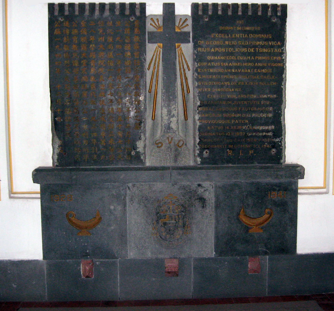 Photograph of the tombstone of Bishop Georg Wieg, SVD, interred in St. Michael's Cathedral, Qingdao.